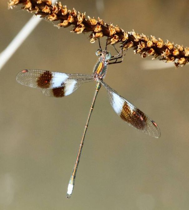 Chlorolestes fasciatus (Mountain Malachite). Taken near Mangeni, KwaZulu-Natal